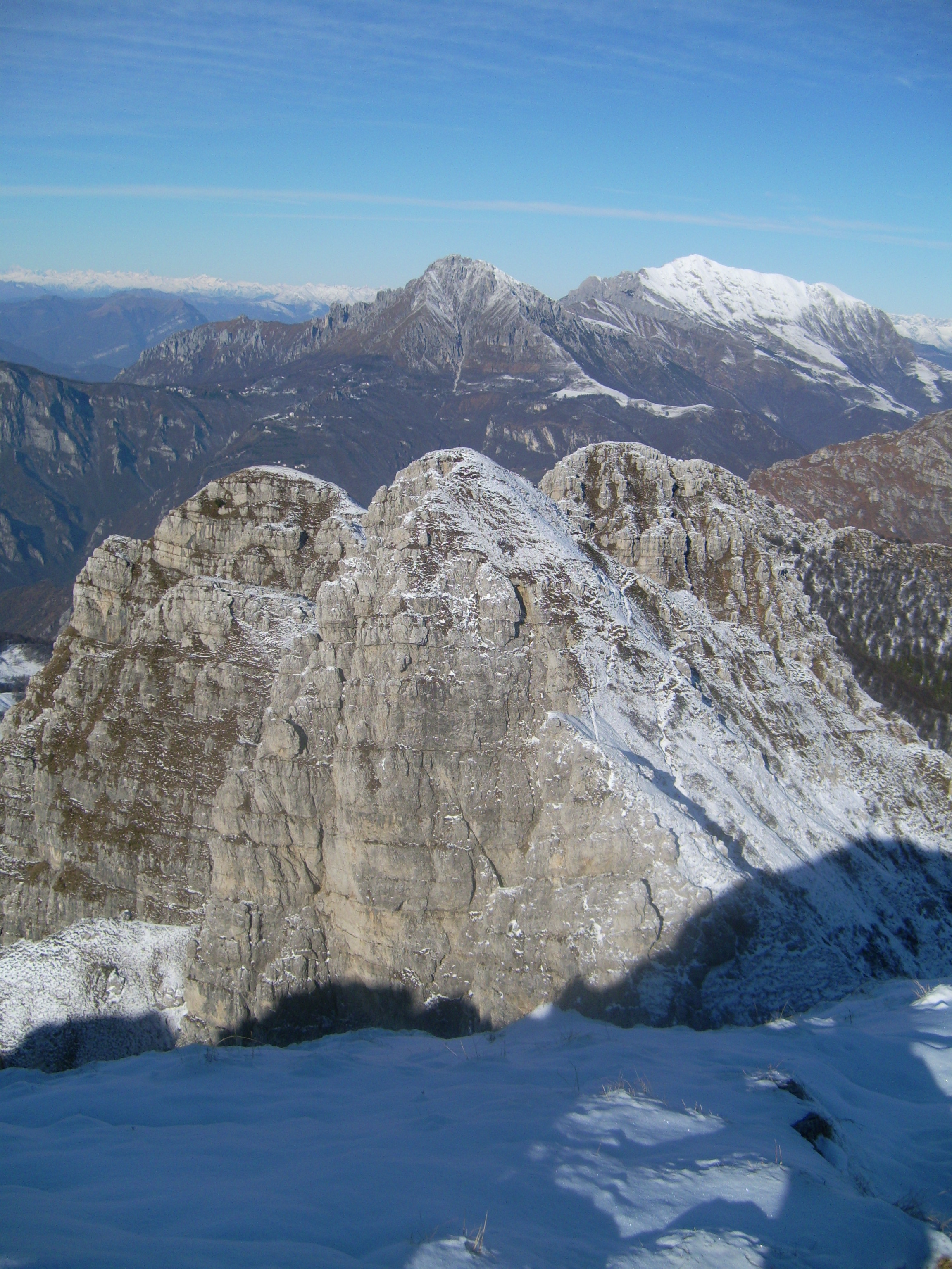 Photo of Monte Resegone